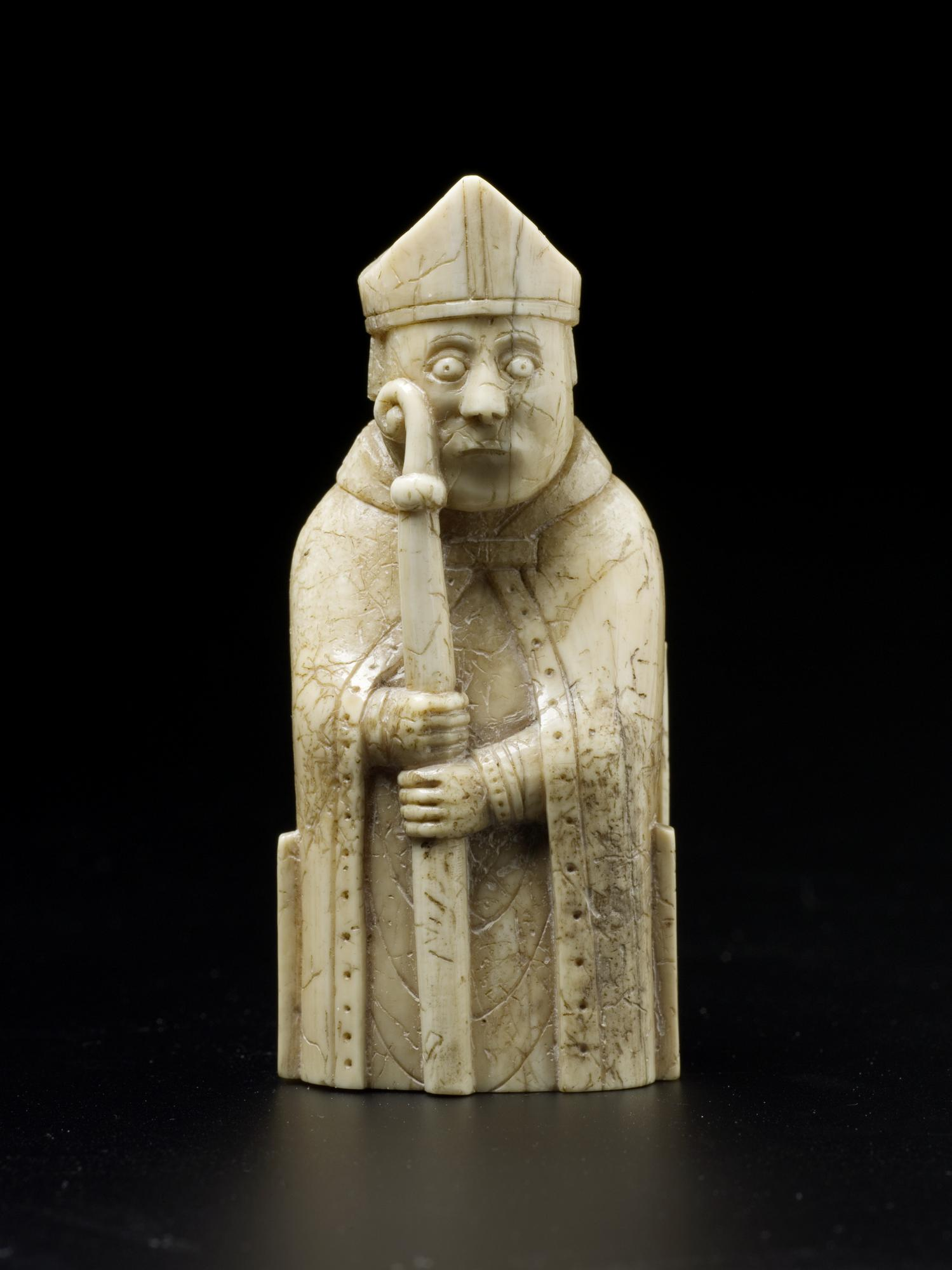 This file was uploaded as part of a partnership between Wikimedia UK and the National Museum of Scotland. This tag does not indicate the copyright status of the attached work. A normal copyright tag is still required. See Commons:Licensing. This work is free and may be used by anyone for any purpose. If you wish to use this content, you do not need to request permission as long as you follow any licensing requirements mentioned on this page.